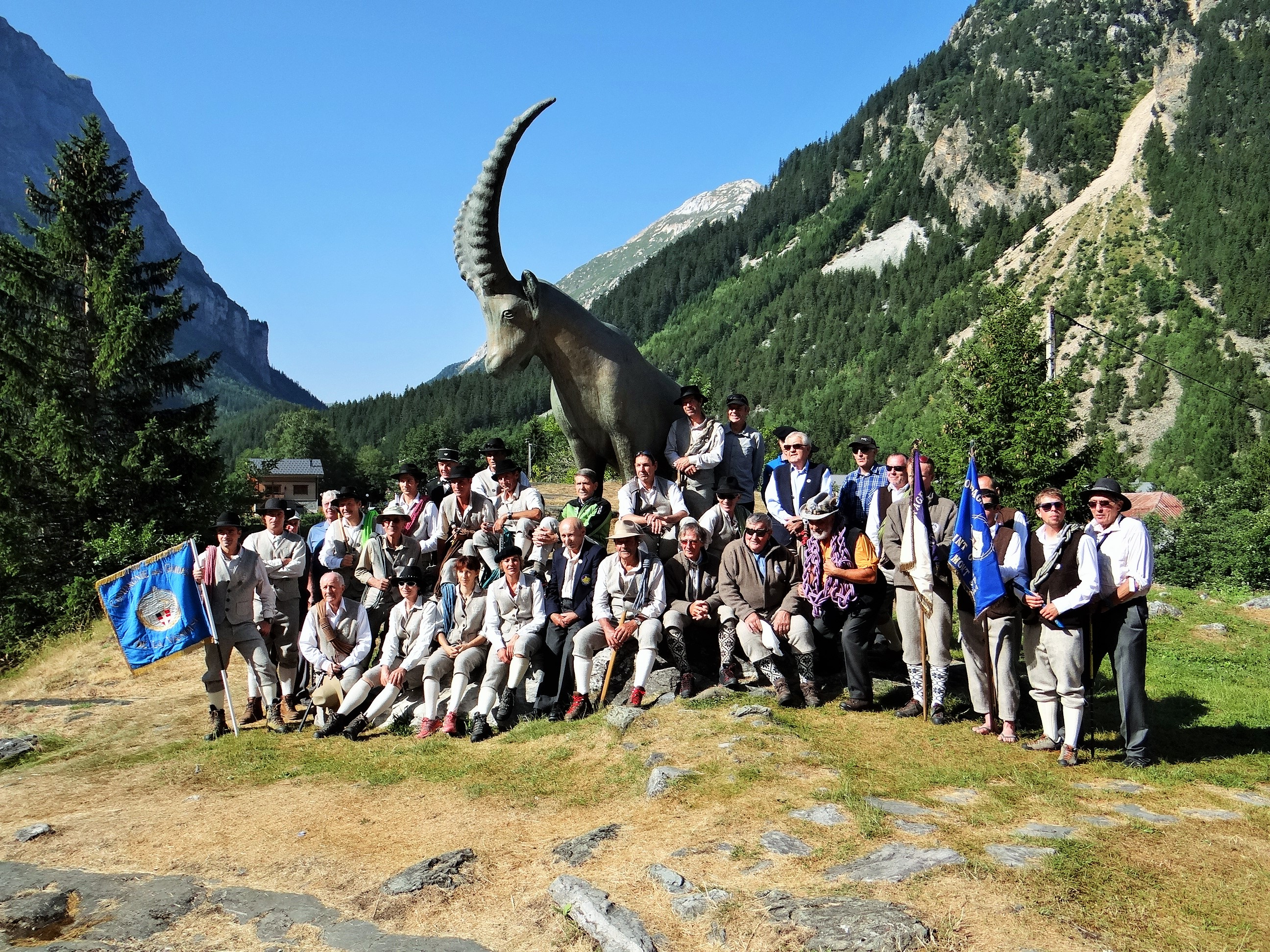 Mountain guide company of Pralognan-la-Vanoise on the feast of the Alpe and Guides, July 2015